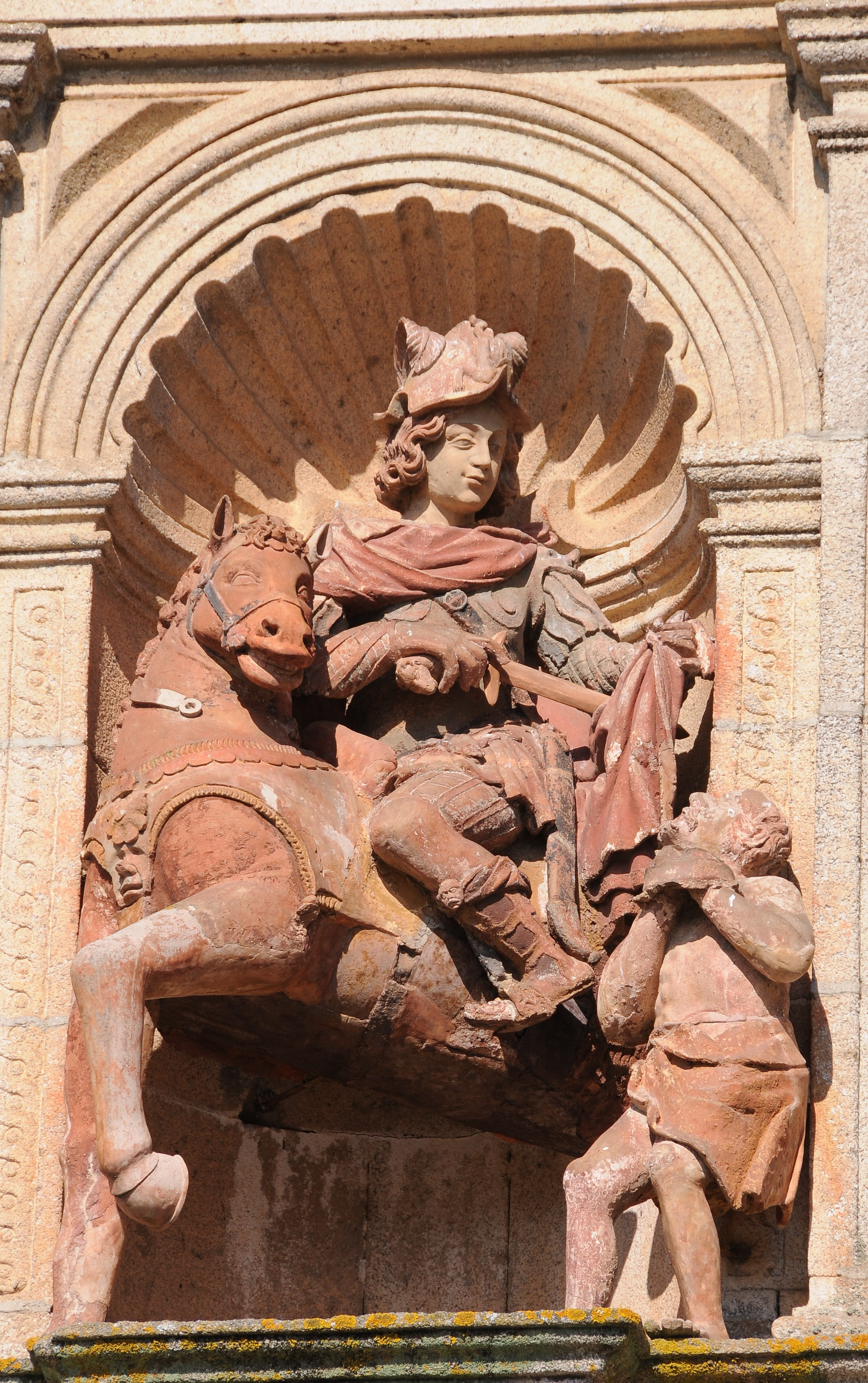 Statue of Saint Martin and the beggar in the main façade of the church of Tibães Monastery in Braga, Portugal